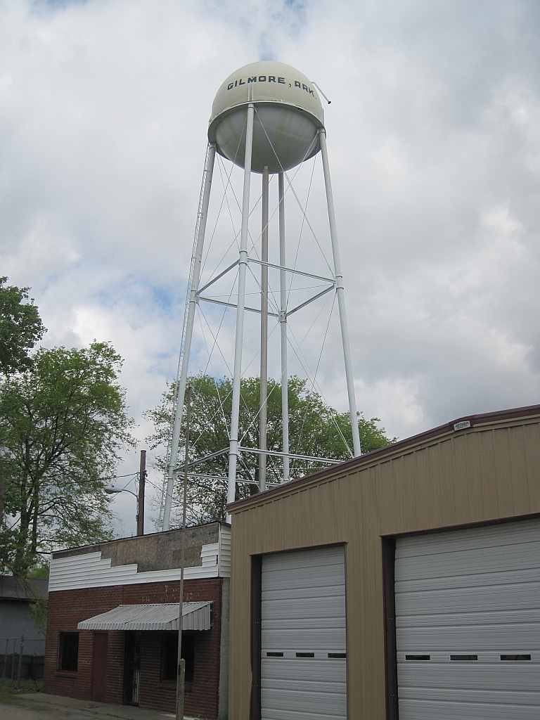 Gilmore, Arkansas Wtare tower